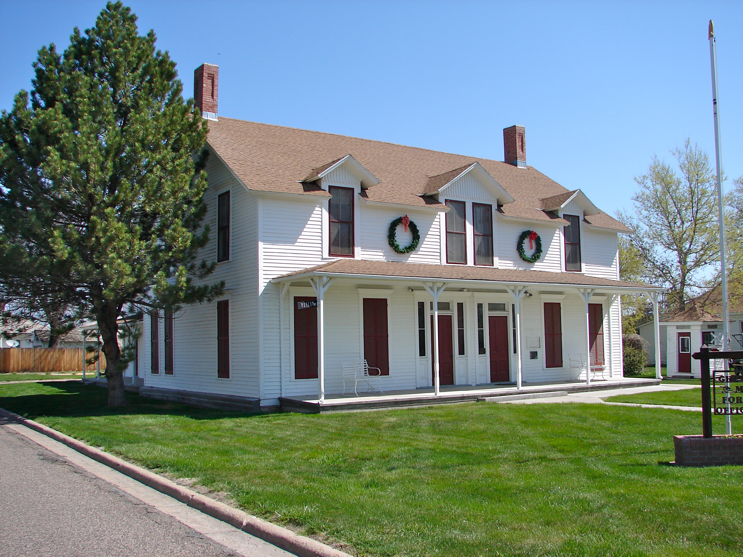 Officer's quarters in Fort Sidney Historic District on the NRHP since March 28, 1973. The Historic District is roughly bounded by 6th and 5th Aves., Linden and Jackson, in Sidney, Nebraska (east of the tracks). There appears to be only 3 structures in the HD: officers quarters, commander's quarters, and an octagonal powder magazine. Museum in the officer's quarters seems to be semi-permanently closed.